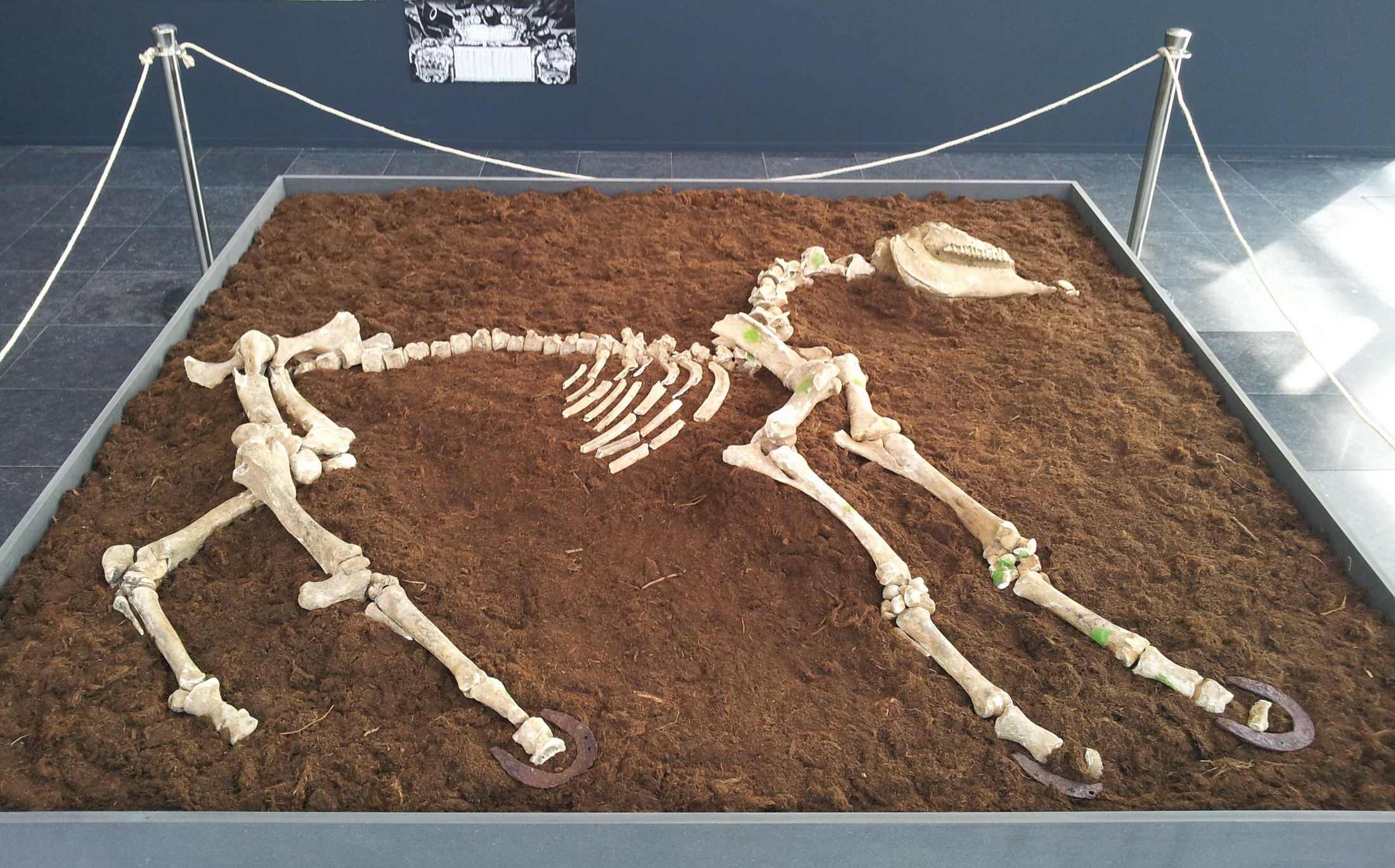 Maastricht, the Netherlands. Skeleton of a horse found in 2010 near Borgharen (Maastricht). The 69 horse skeletons were probably buried here after the Siege of Maastricht by general Kléber in 1794 and bare witness to the fact that not only humans were victims of war.